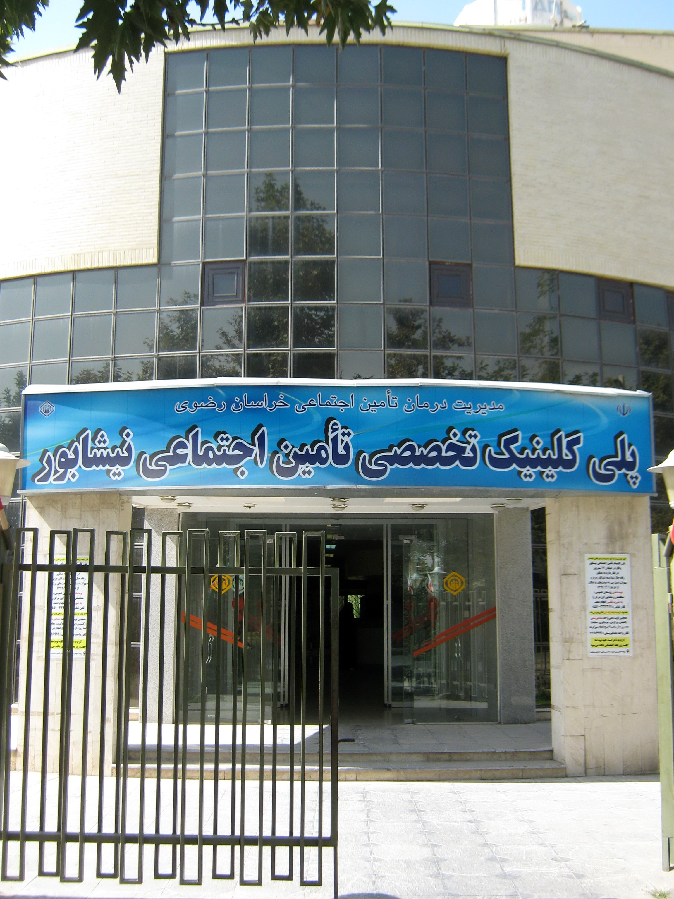 17 Shahrivar street photography - Nishapur